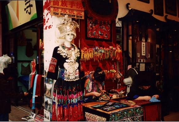 阳朔西街苗族银器 A silver jeweller shop at the West Street, Yangshuo